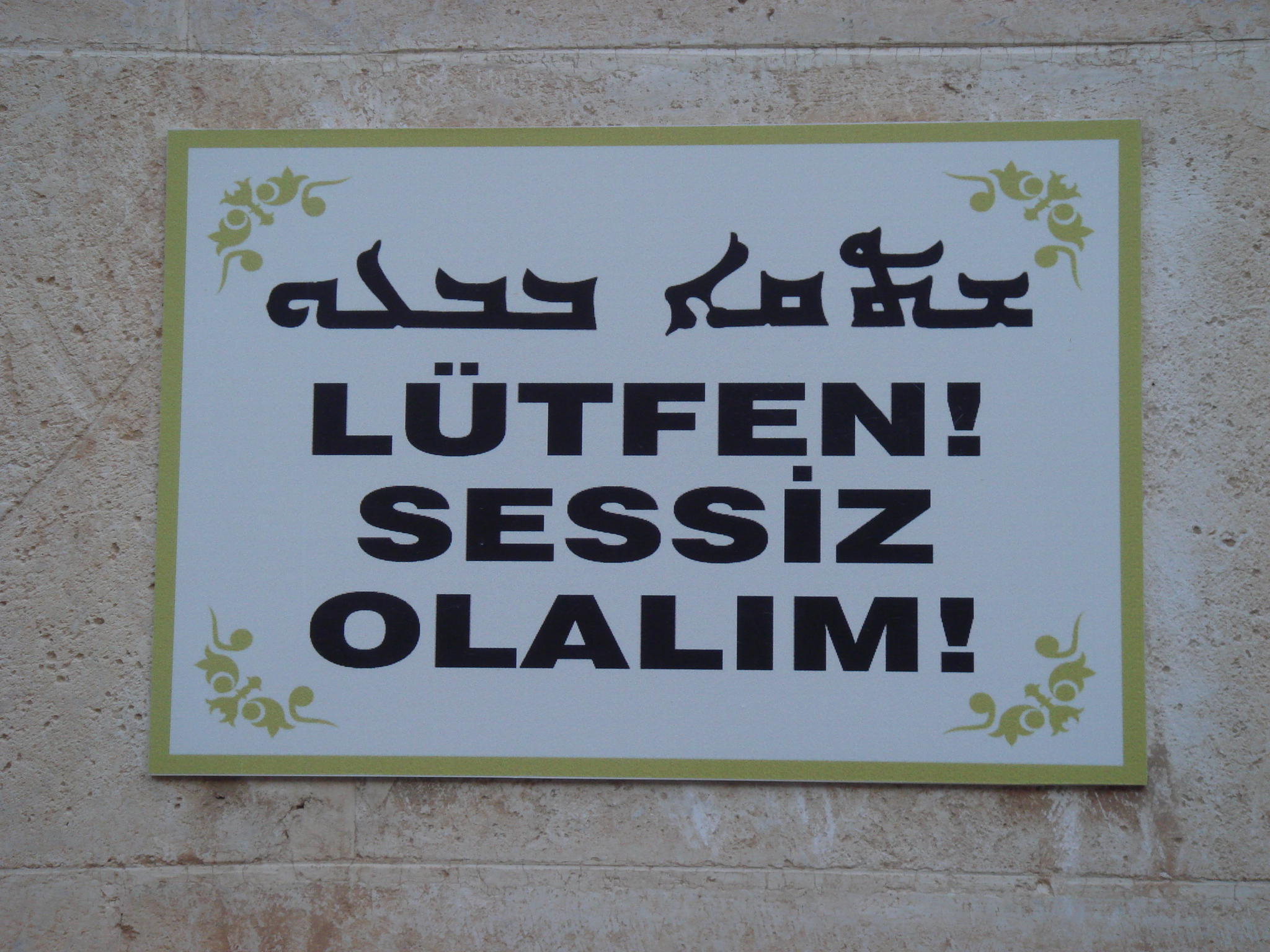 A warning sign: Please! Let's be quiet! in Syriac and Turkish languages. Mardin, Turkey. Kurdî: Lewheyeke balkeşandinê "Ji kerema xwe re, hiş bin!", bi suryanî û tirkî, li Dêra Zehferanê, Mêrdîn.